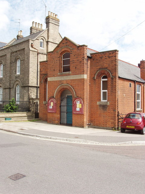 Church hall, Priory Street, Colchester. This is the church hall for the Catholic church of St James the Less and St Helen, which is adjacent.